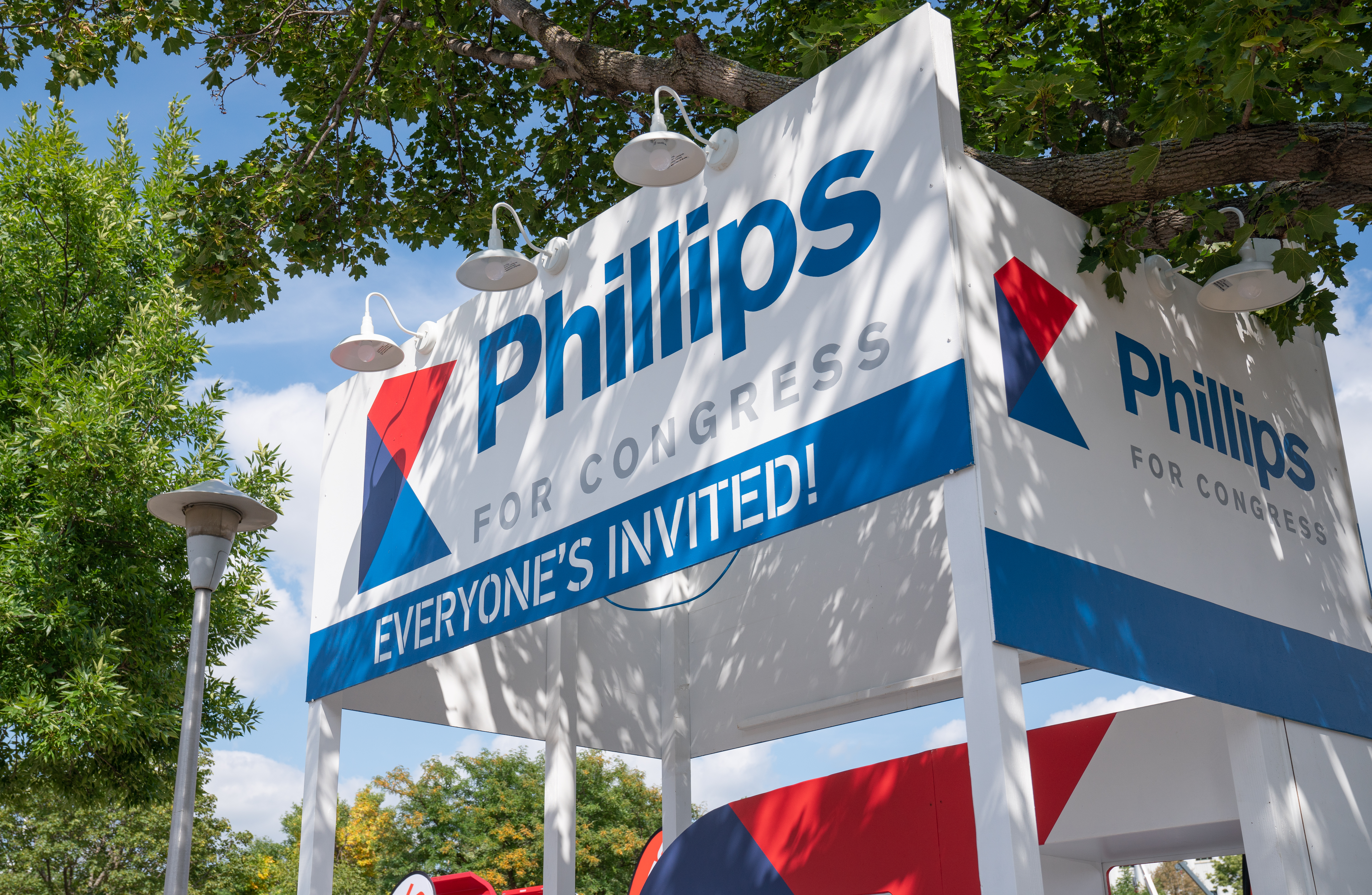 Minnesota State Fair on August 29, 2018. DEAN PHILLIPS FOR CONGRESS EVERYONE'S INVITED!